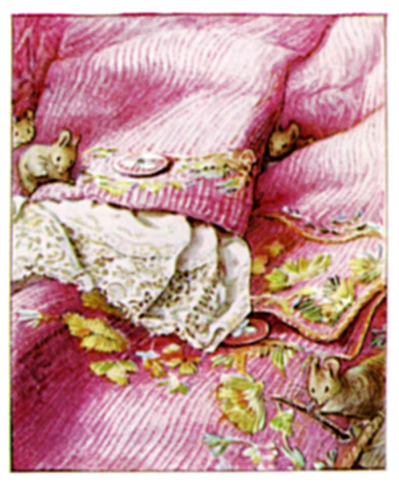 Detail of the waistcoat, illustration from The Tailor of Gloucester